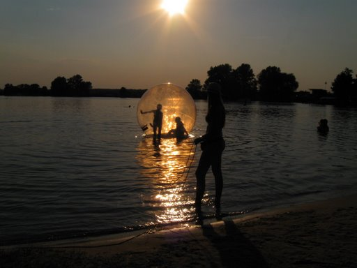 aquazorbing